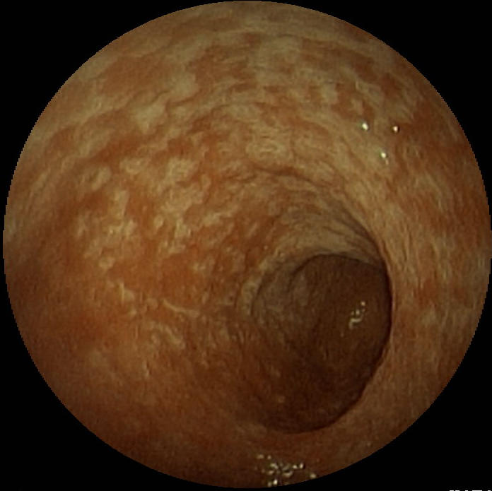 Chronic gastritis induced by helicobacter pylori infection. Acetate stained and FICE enhanced image.